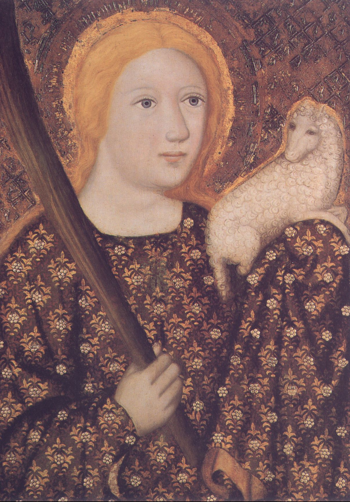 Saint Agnes of Rome